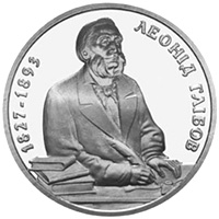 Coin of Ukraine